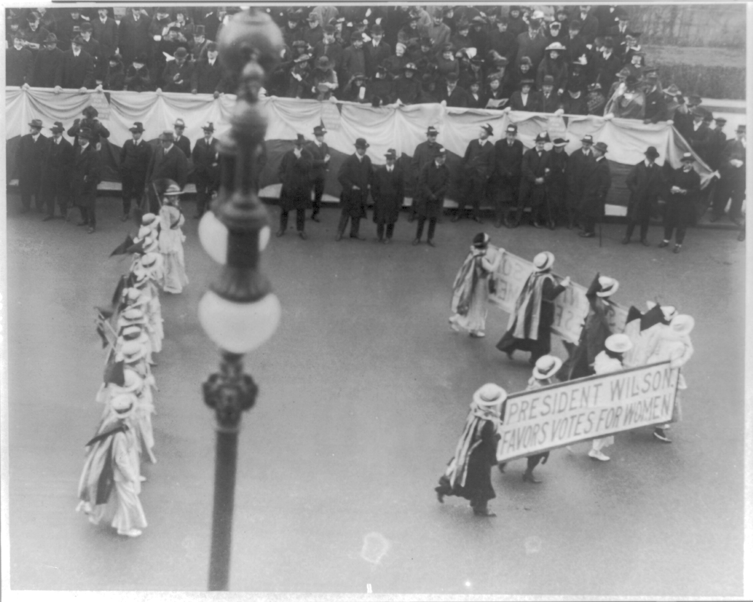 Suffragettes parading with banner "President Wilson favors votes for women". N.Y.C. ca.1916